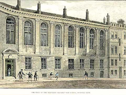 The School at Suffolk Lane: 1675-1875; building of Merchant Taylors' School at Suffolk Lane 1675-1875.